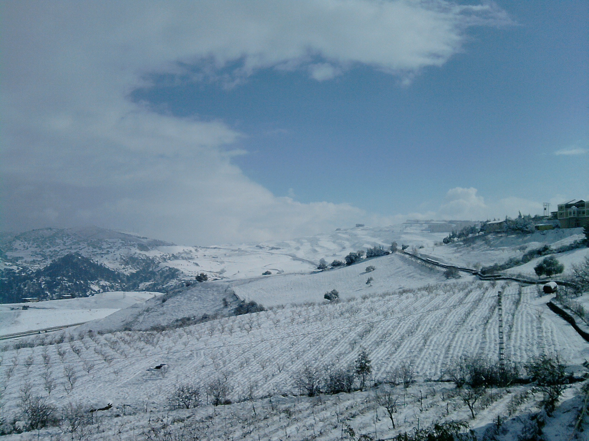 Medea